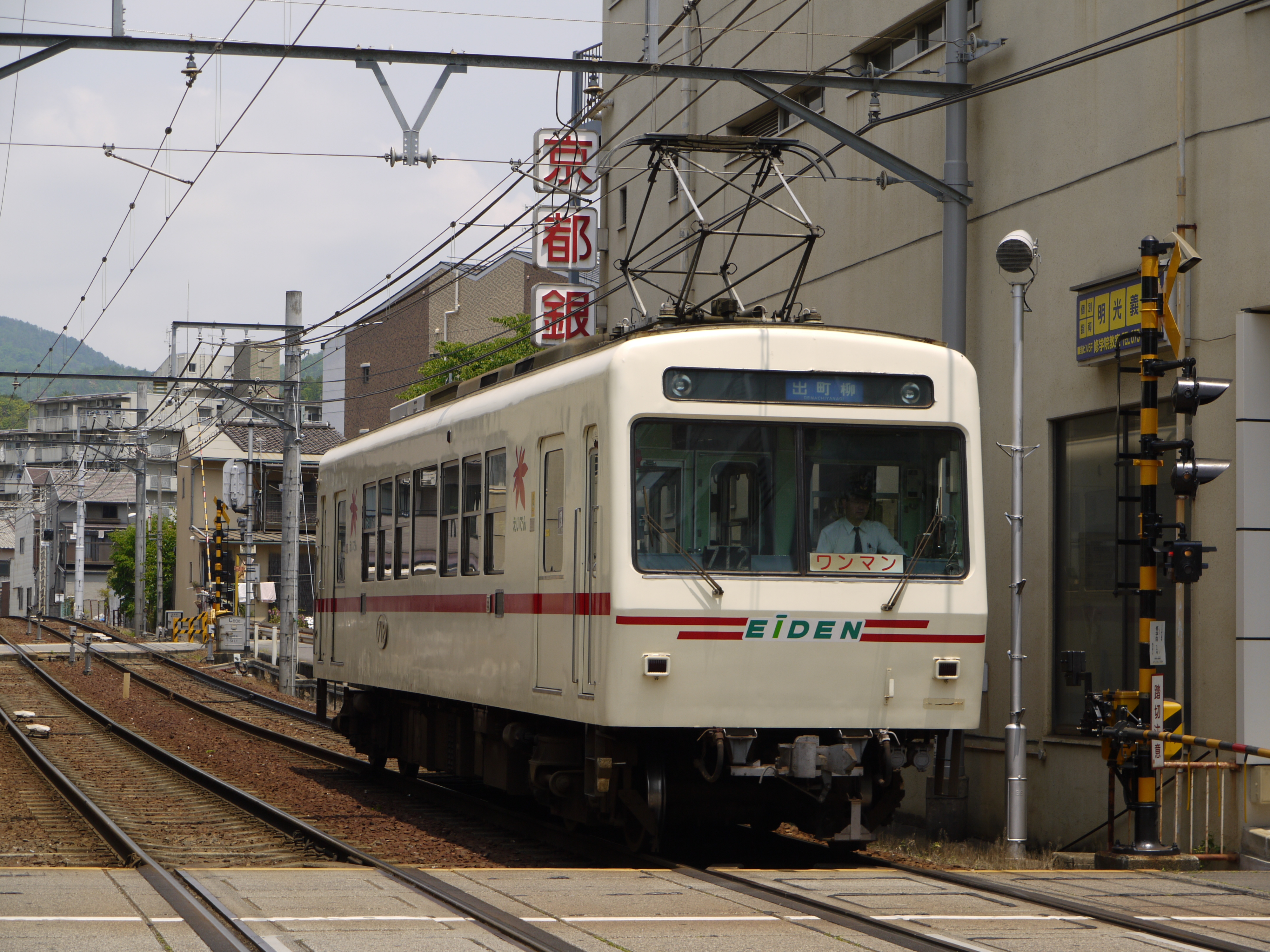 Eizan Electric Railway Deo 712 at Shugakuin